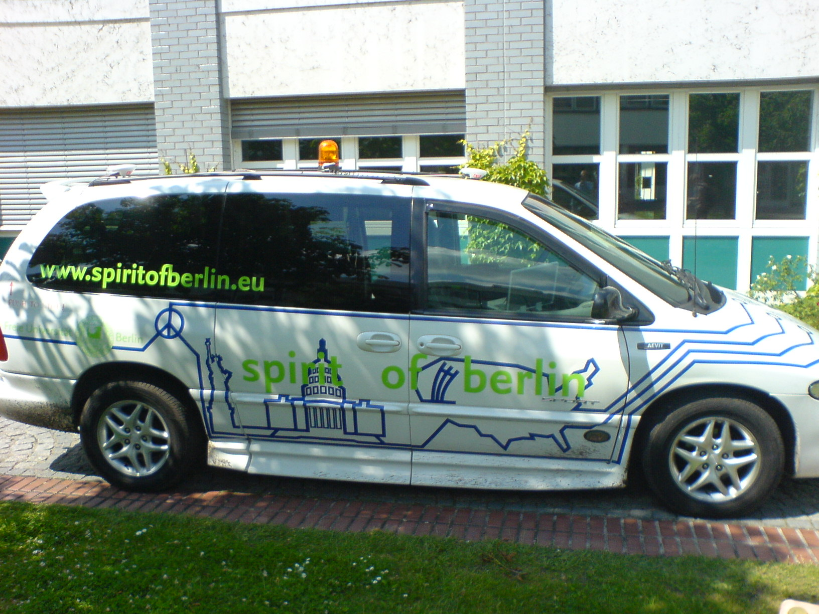 the "spirit of berlin", an autonomous car participating in the DARPA Urban Challenge 2007 developed by folks at the Free University of Berlin